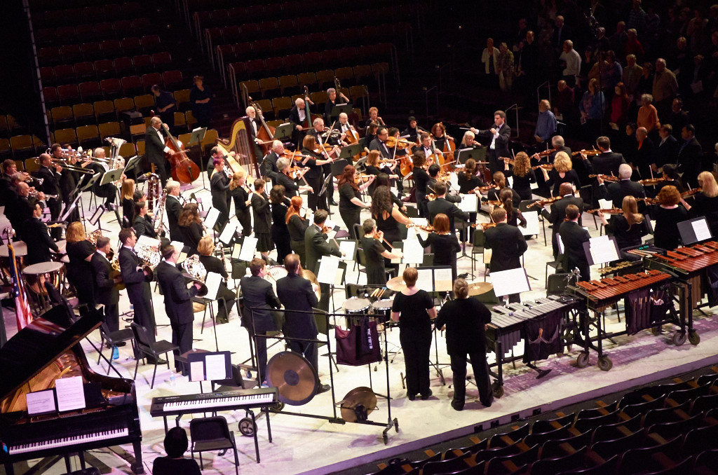 LSO in action on November 1, 2015.